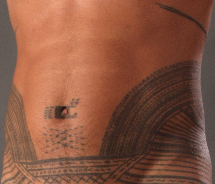 detail of front shot of traditional Samoan tattoo